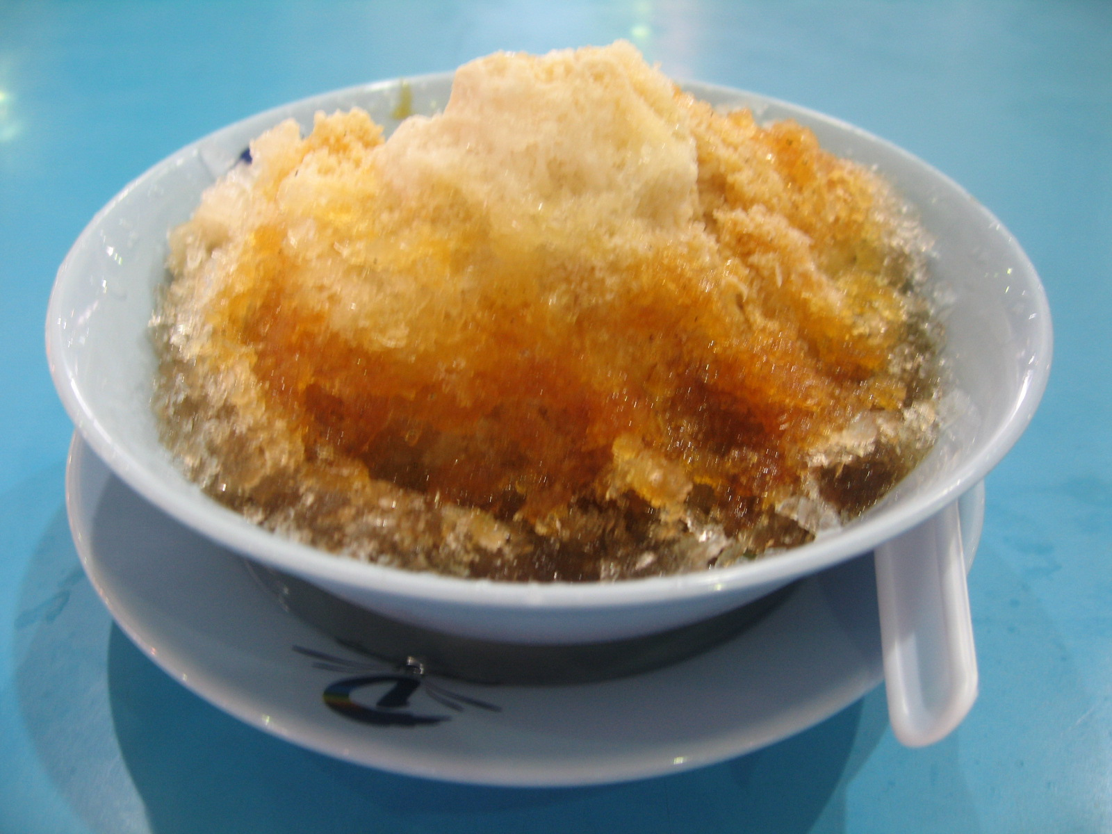 Chendol.